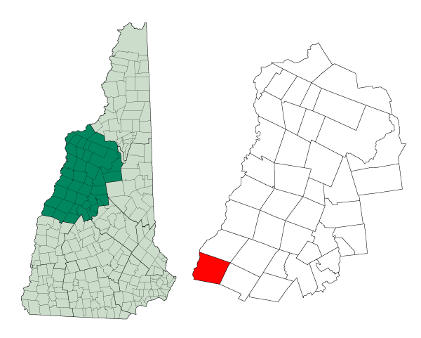 Map of a municipality in Belknap County, New Hampshire